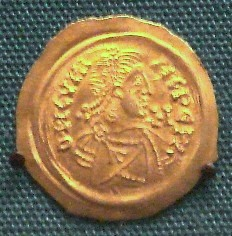 Cuninpert_688_700_king_of_the_Lombard_minted_in_Milan